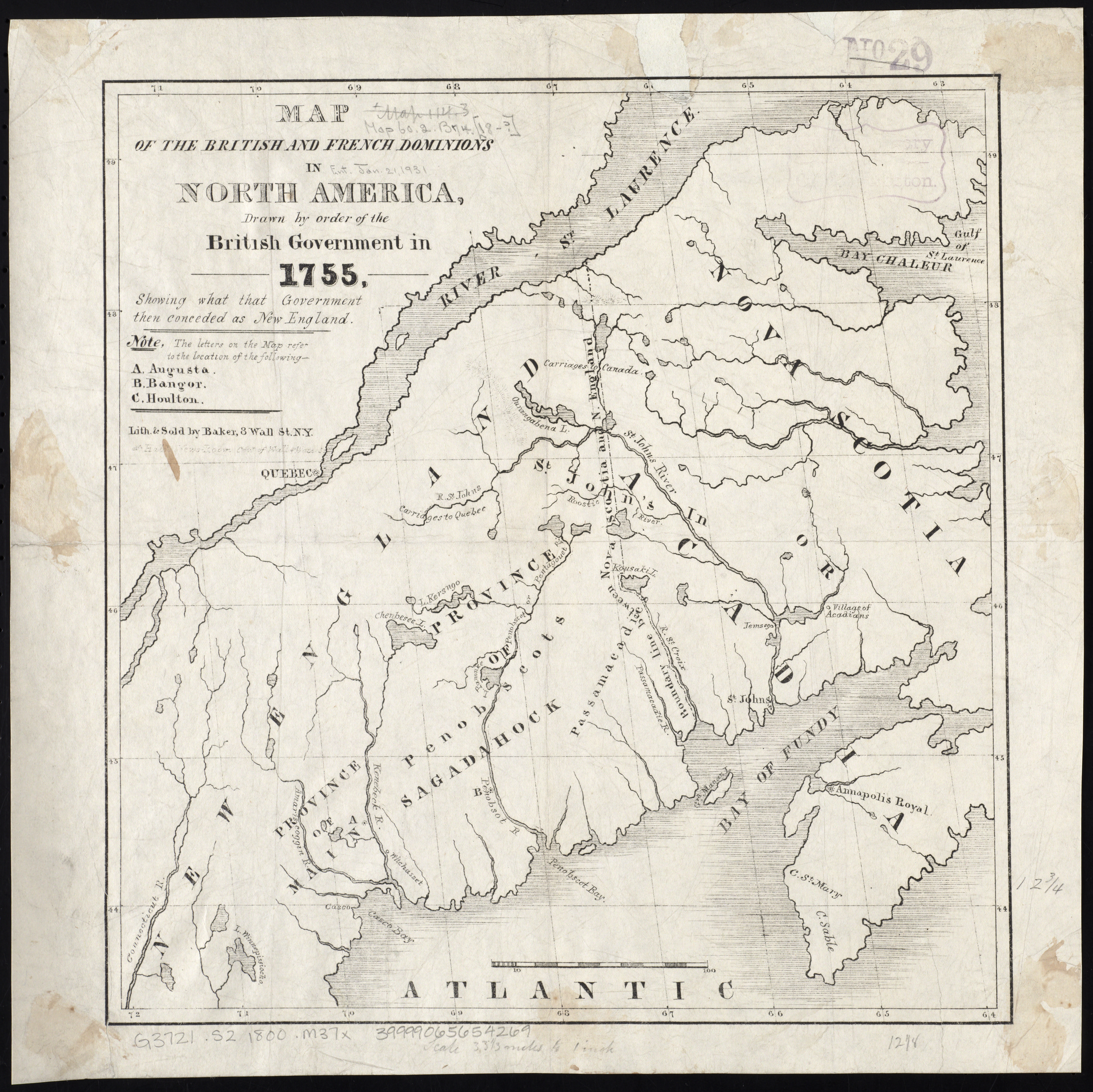 Zoom into this map at . Publisher: Baker Date: 1800 Location: New England Dimensions: 33 x 31 cm. Scale: Scale [ca. 1:2,100,000] Call Number: G3721.S2 1800 .M37x